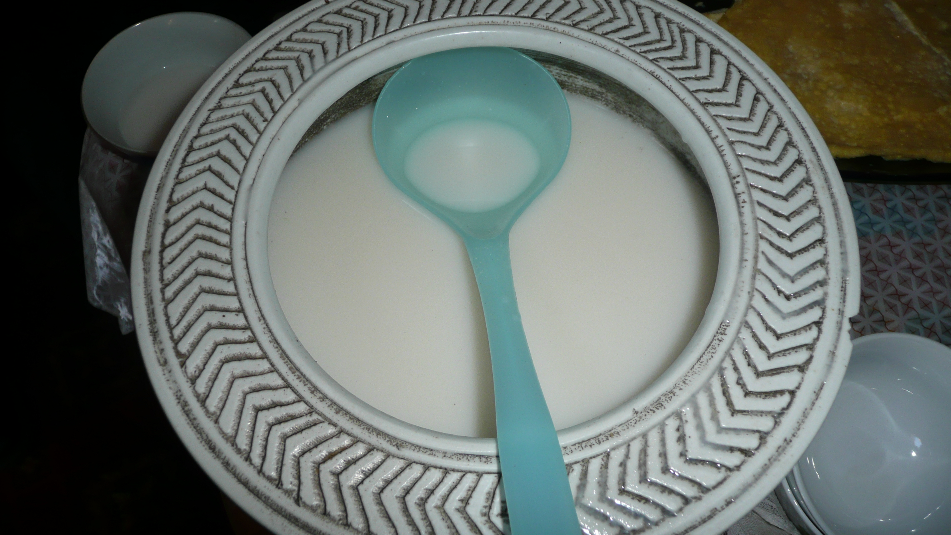 Airag (Kumis) of Mongolia